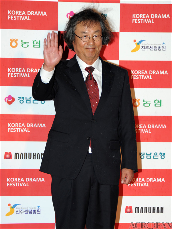 2010 Korea Drama Festival